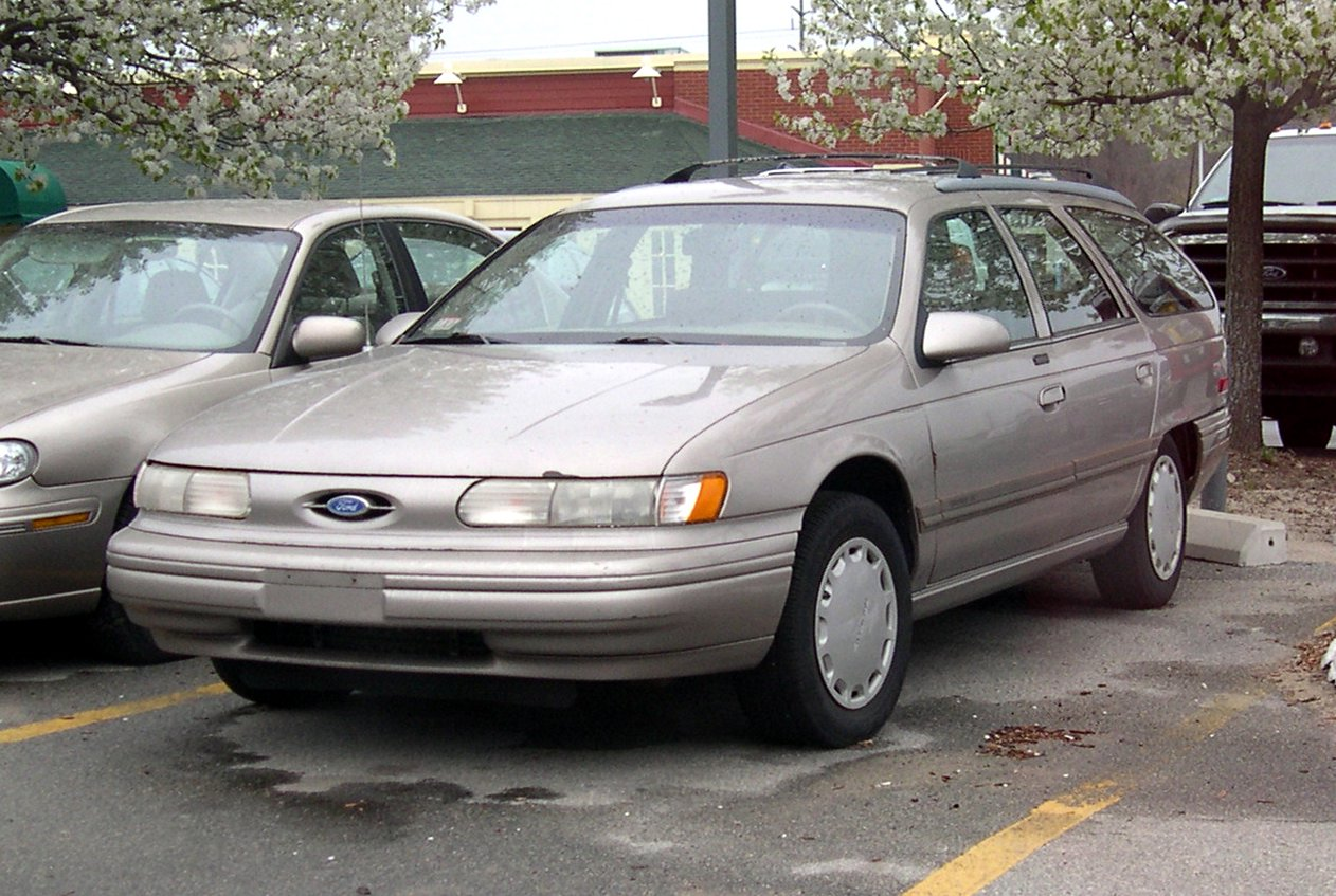 Second-generation 1994-1995 Ford Taurus wagon